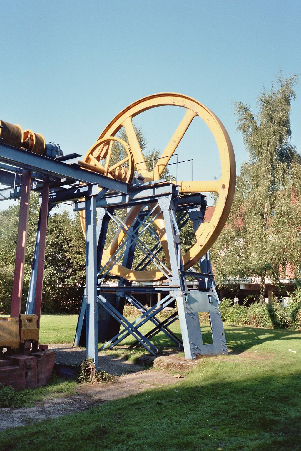 A fly wheel of an ancient drop forge in Witten, Germany This is a photograph of an architectural monument.